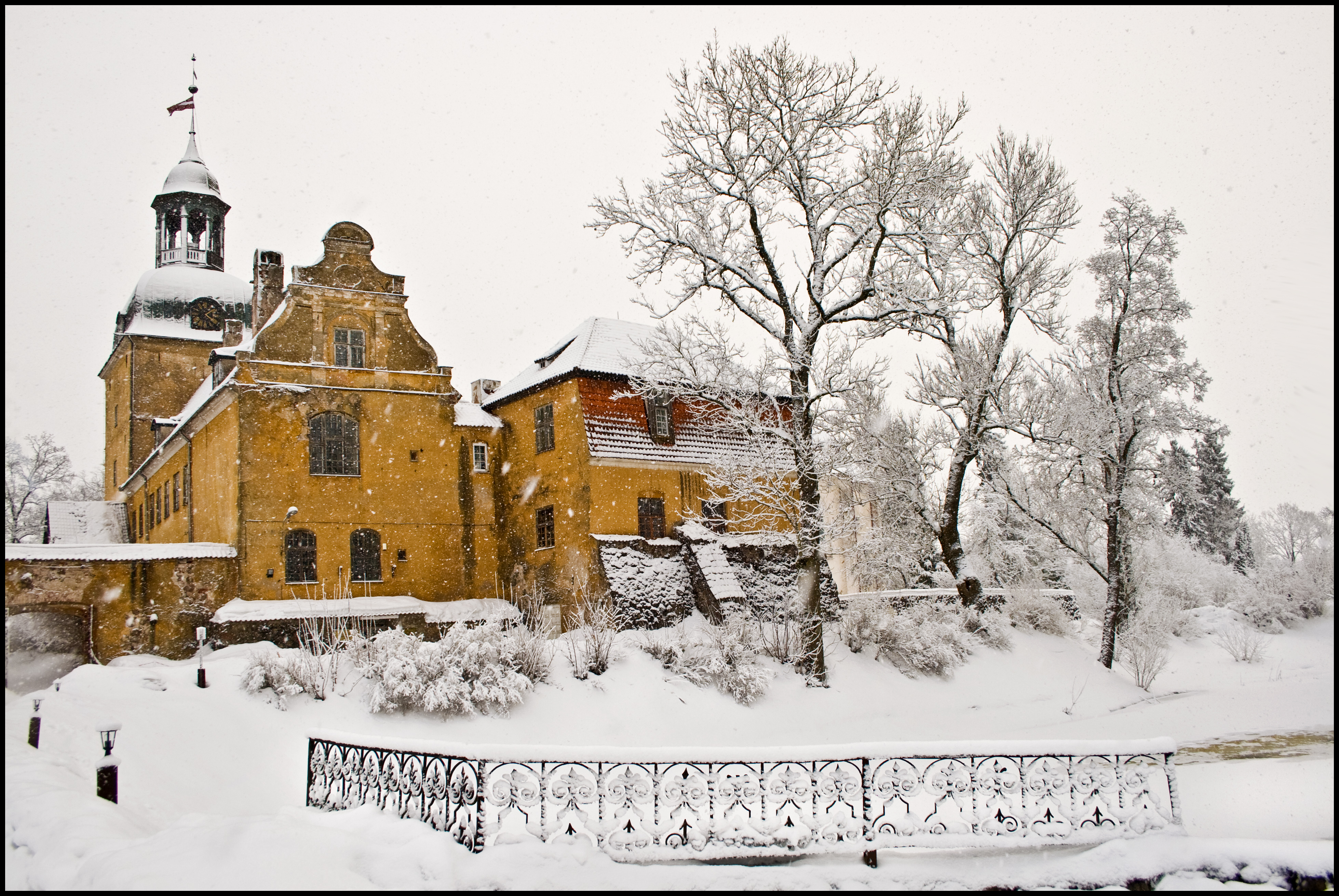 Lielstraupe CastleLatviešu: Lielstraupes pils